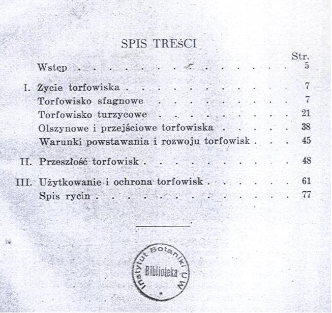 Contents